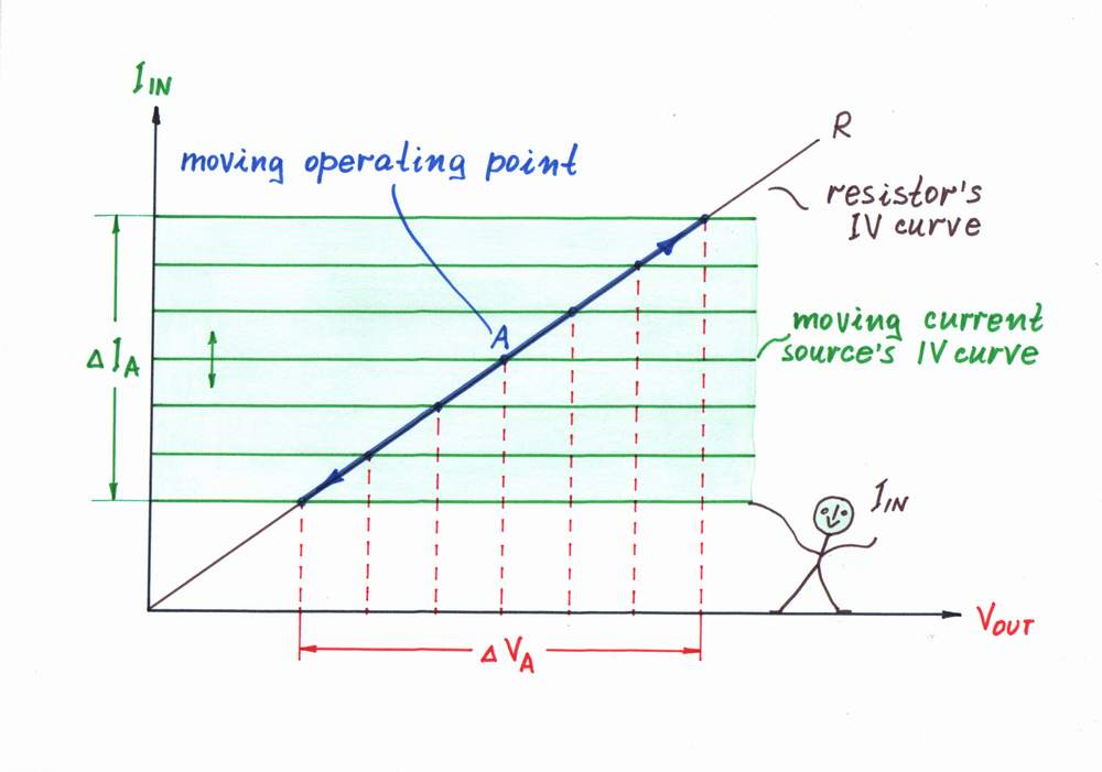 Graphoanalytical presentation of current-to-voltage converter operation